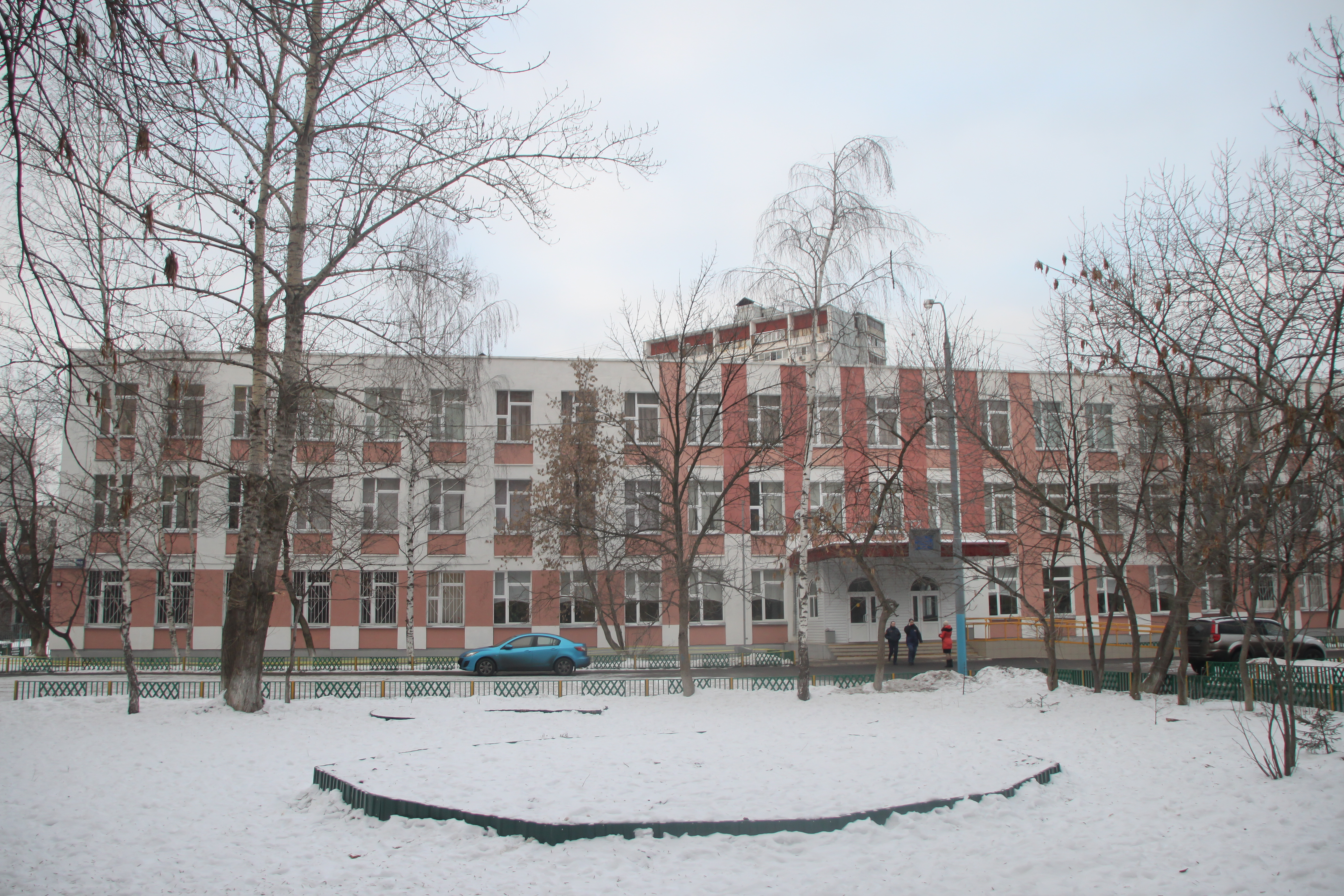 School No. 263 (Moscow) the day after the 2014 Moscow school shooting